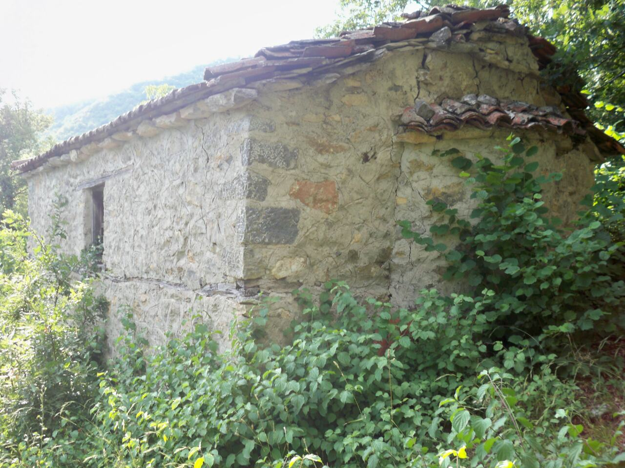 St. Athanasius Church (Selci)